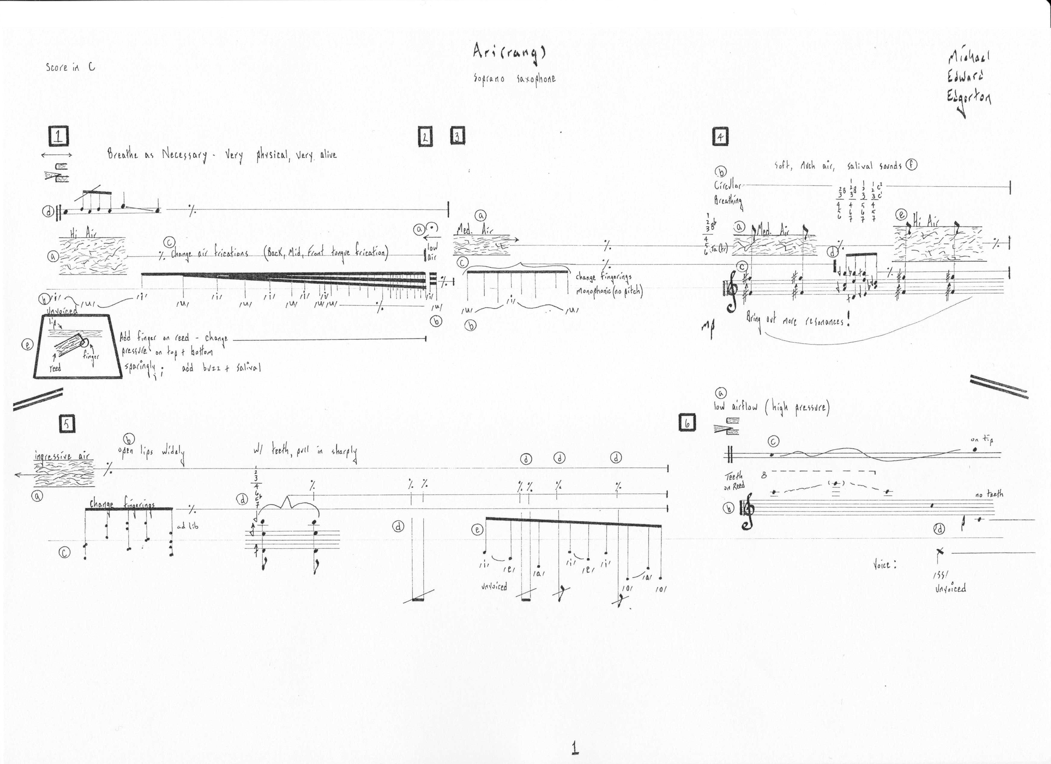 Michael Edward Edgerton_#85a_Ari(rang), for sop sax, page 1